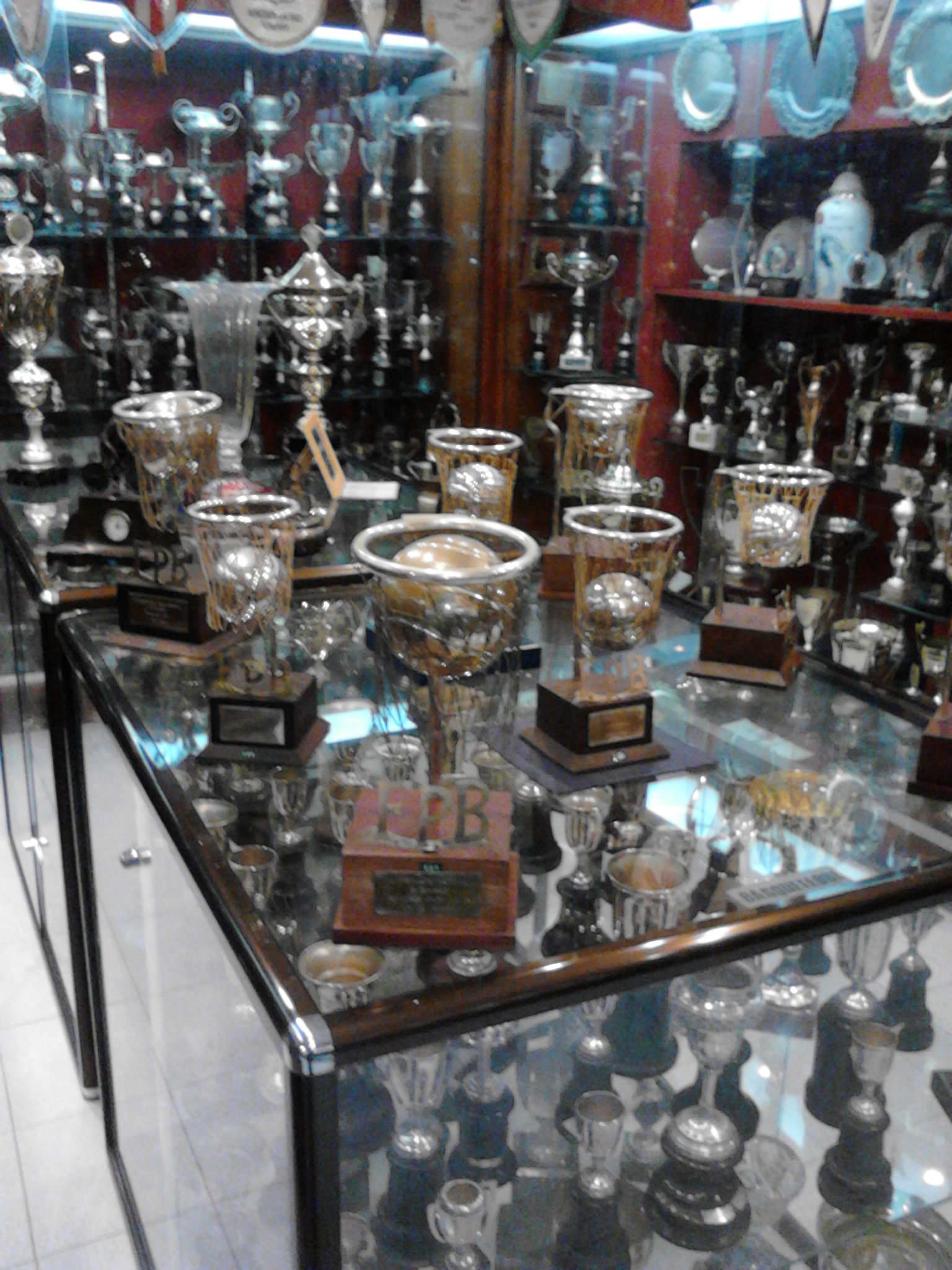 The larger one is the first tier